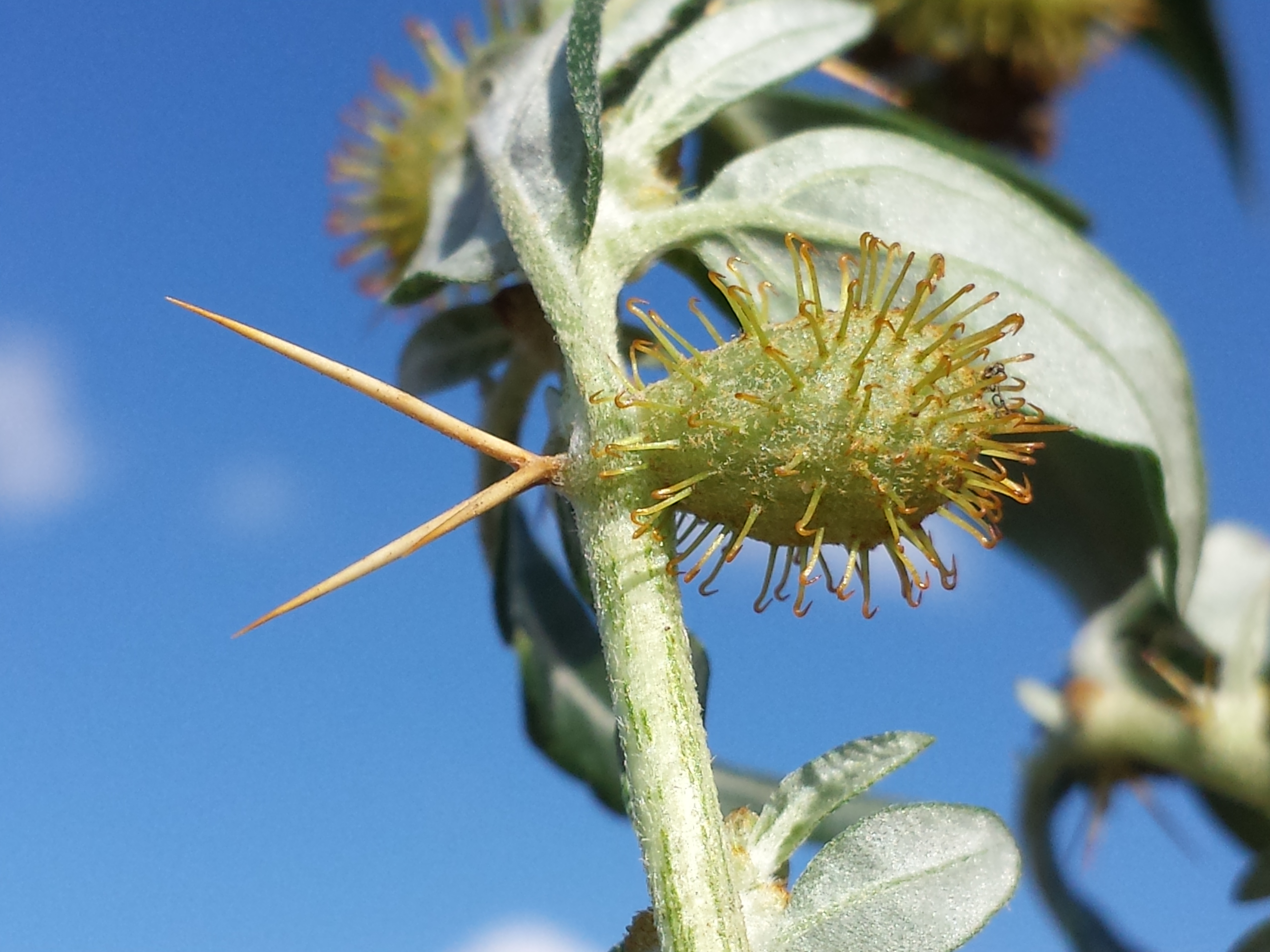 Stem with spines and female flower basket Taxonym: Xanthium spinosum ss Fischer et al. EfÖLS 2008 ISBN 978-3-85474-187-9 Location: 0,7 km nordöstlich von Roseldorf, district Korneuburg, Lower Austria - 240 m a.s.l. Habitat: field of potatoes